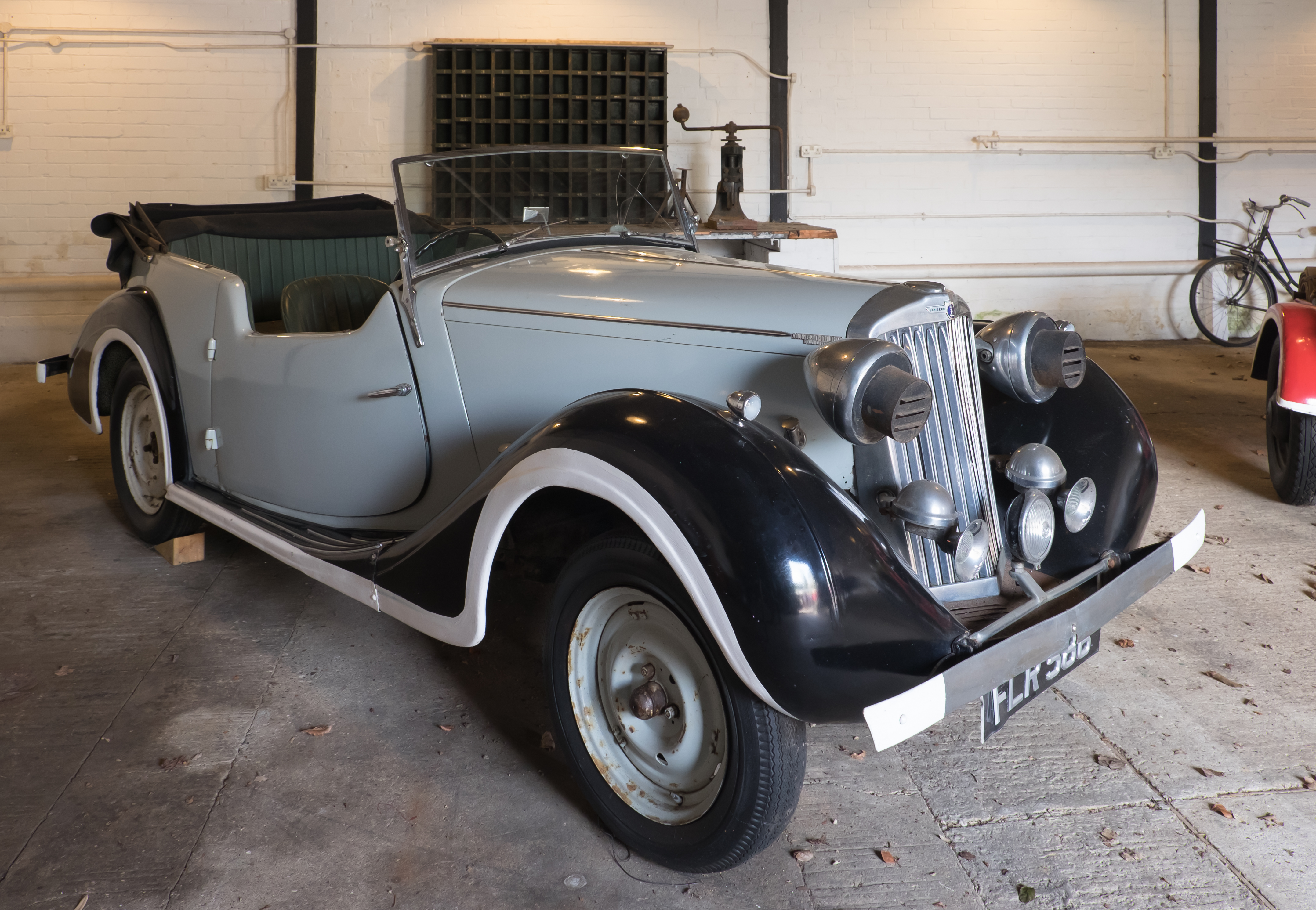 The Sunbeam-Talbot 2 litre Sports Tourer converted from a standard 1947 Sunbeam-Talbot 2 litre Sports Saloon as used in the 2001 WWII film Enigma. The car is fitted with blackout headlights and white paint on the sides and bumpers, as was typical in wartime Britain.